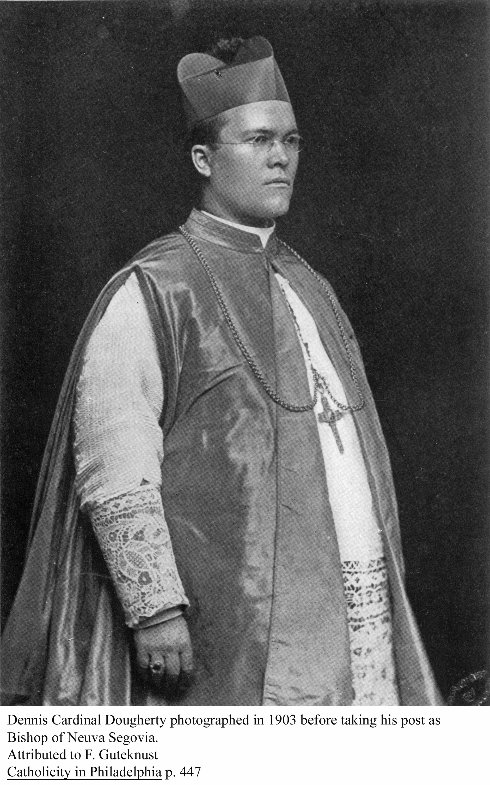 When Dennis Dougherty was made Bishop of Neuva Segovia in the Philippines.